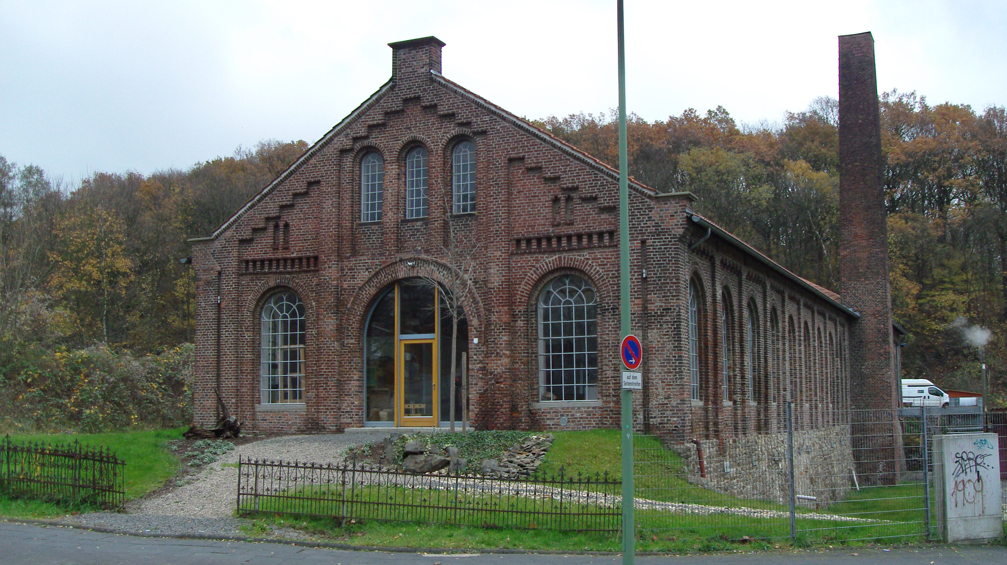 Machinery building of the Harkort’sche Fabrik